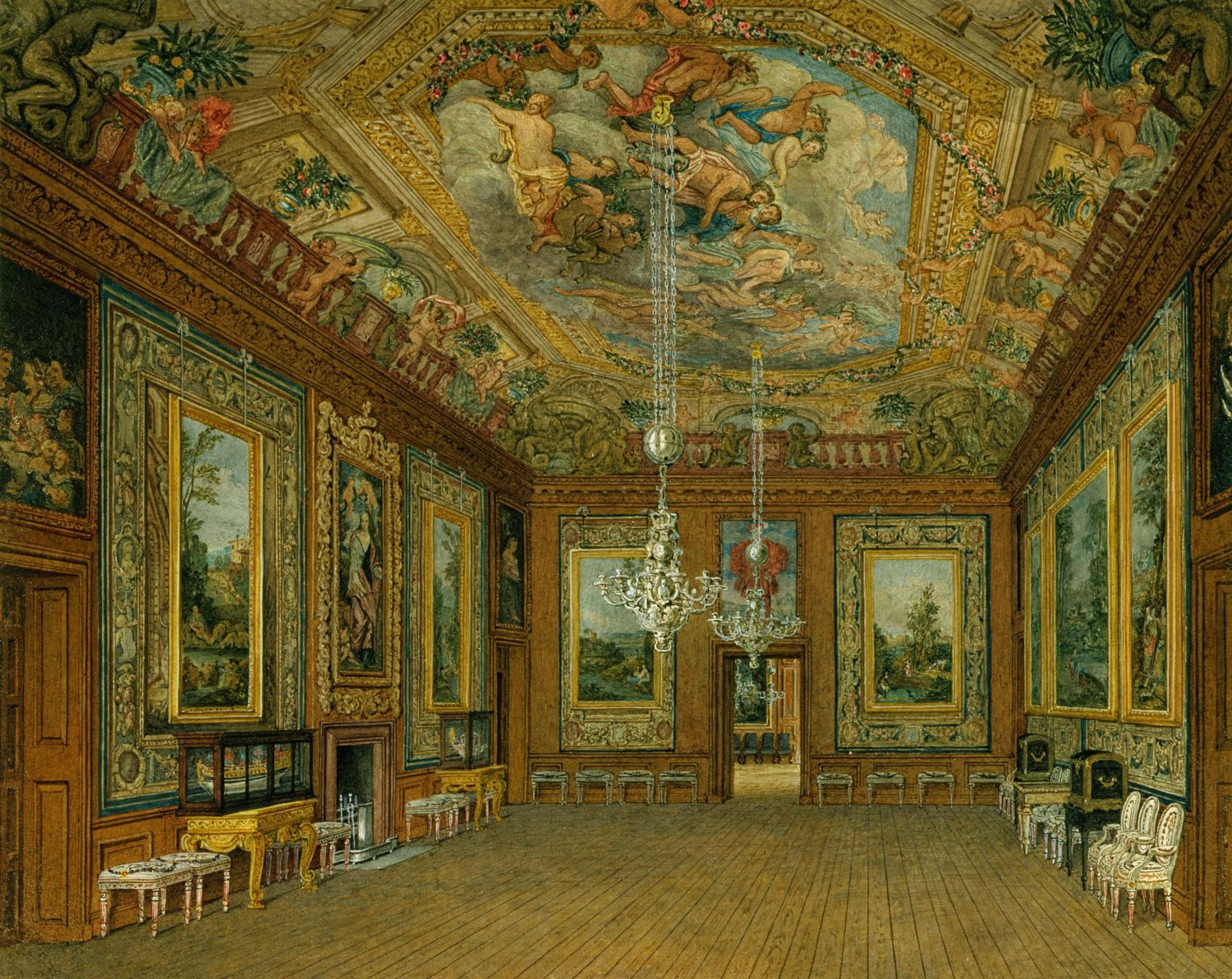 A view of the Queen's Drawing Room at Windsor Castle The aquatint engraving of this picture was published as plate 10 of W.H. Pyne (1819), The History of the Royal Residences